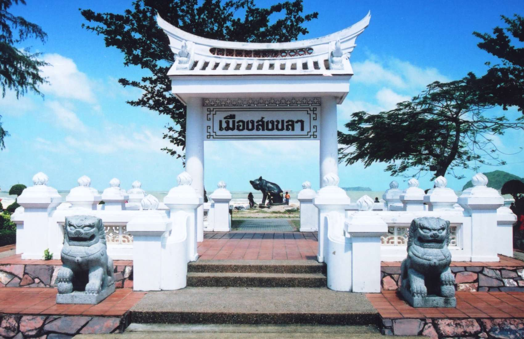 Laem Samila beach, Songkhla, Thailand. The sign shows the text เมืองสงขลา (Mueang Songkhla), which simply means City of Songkhla. Through the gate the statue of the cat and mouse is visible - built because the two islands visible from the beach are called Ko Maew and Ko Nuh (Cat and mouse island). Photo taken by User:Ahoerstemeier on January 23 2005.